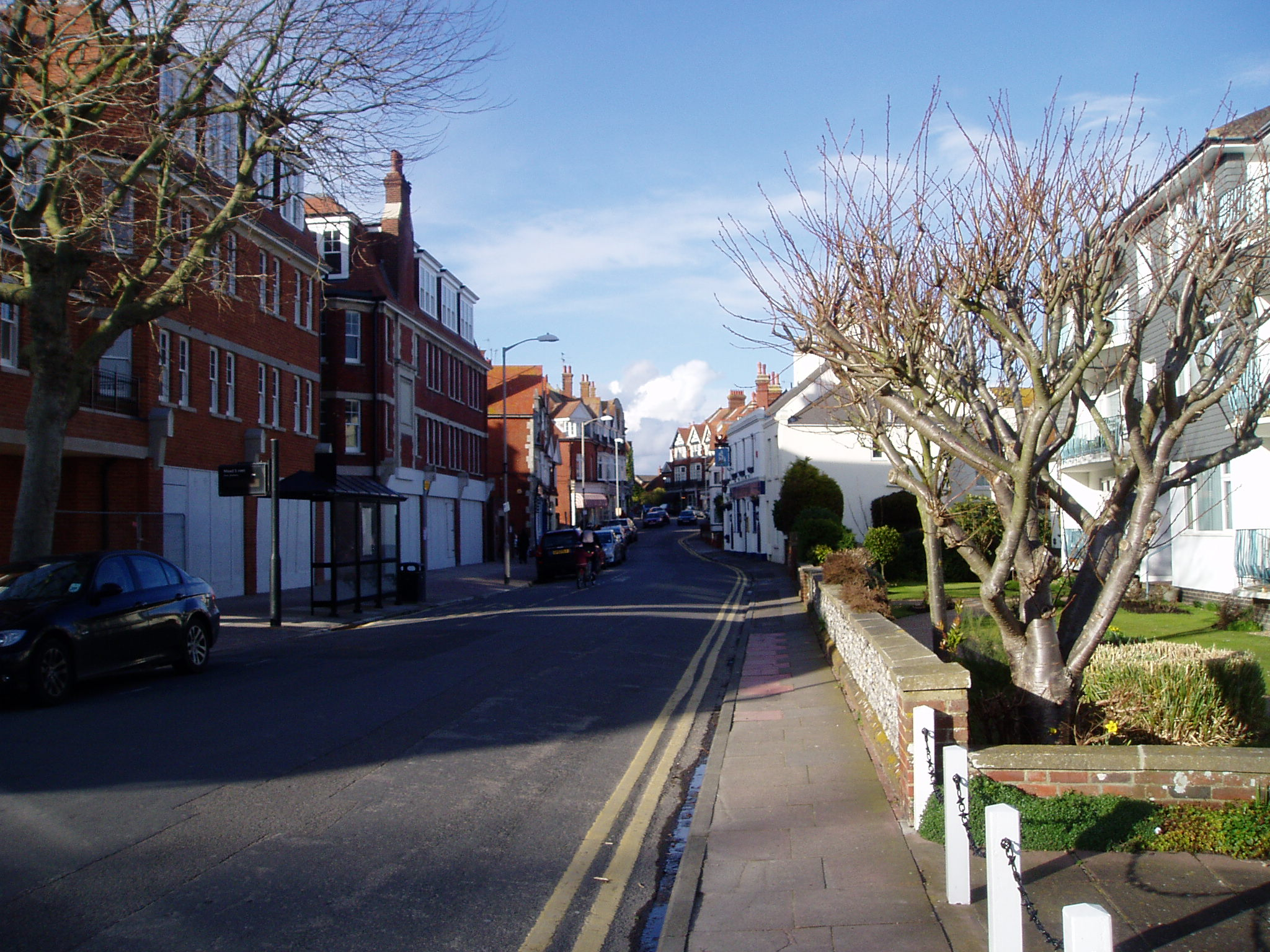 Meads Street, Eastbourne, looking S-N